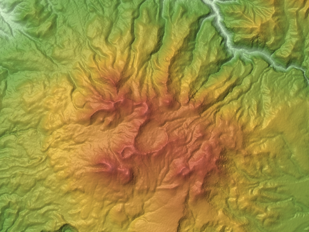 Taisetsu Volcano Group in Hokkaido, Japan. Taisetsu is also written as Daisetsu.